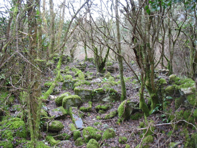 The ruins of the spa house at Ffynnon Cegin Arthur. Ffynnon Cegin Arthur (Well of Arthur's Kitchen) is a chalybeate spring. The well is mentioned by a fifteenth century poet but it was in the eighteenth and nineteenth centuries that saw its hey day as many people and their animals came to drink the water. The water was red in colour and had a very oily taste. A small spa house was built next to the well. The well is now totally forgotten and inspite of a number of way marked paths is difficult to reach as the ground is frequently waterlogged. 303343